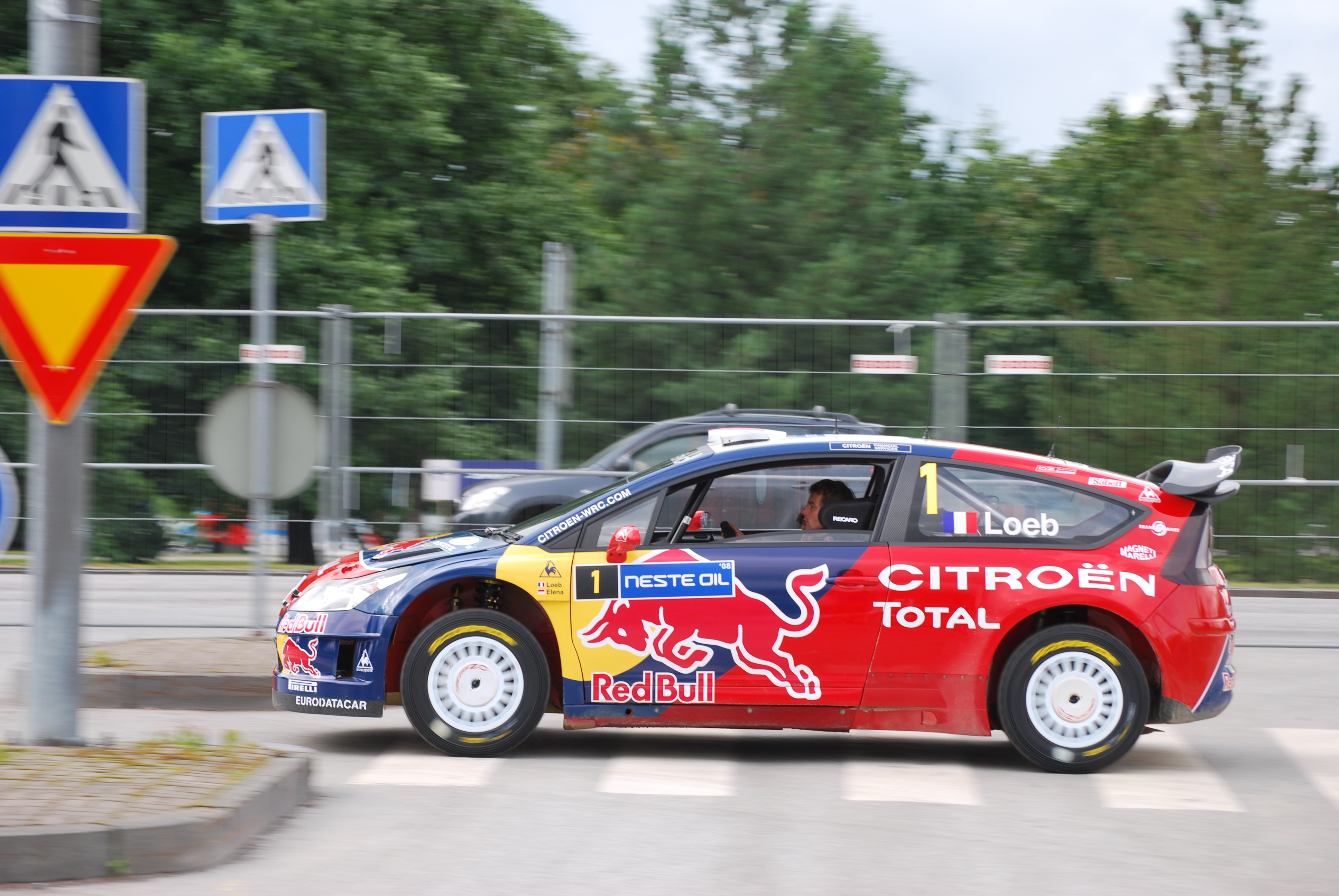 A service during 2008 Rally Finland.